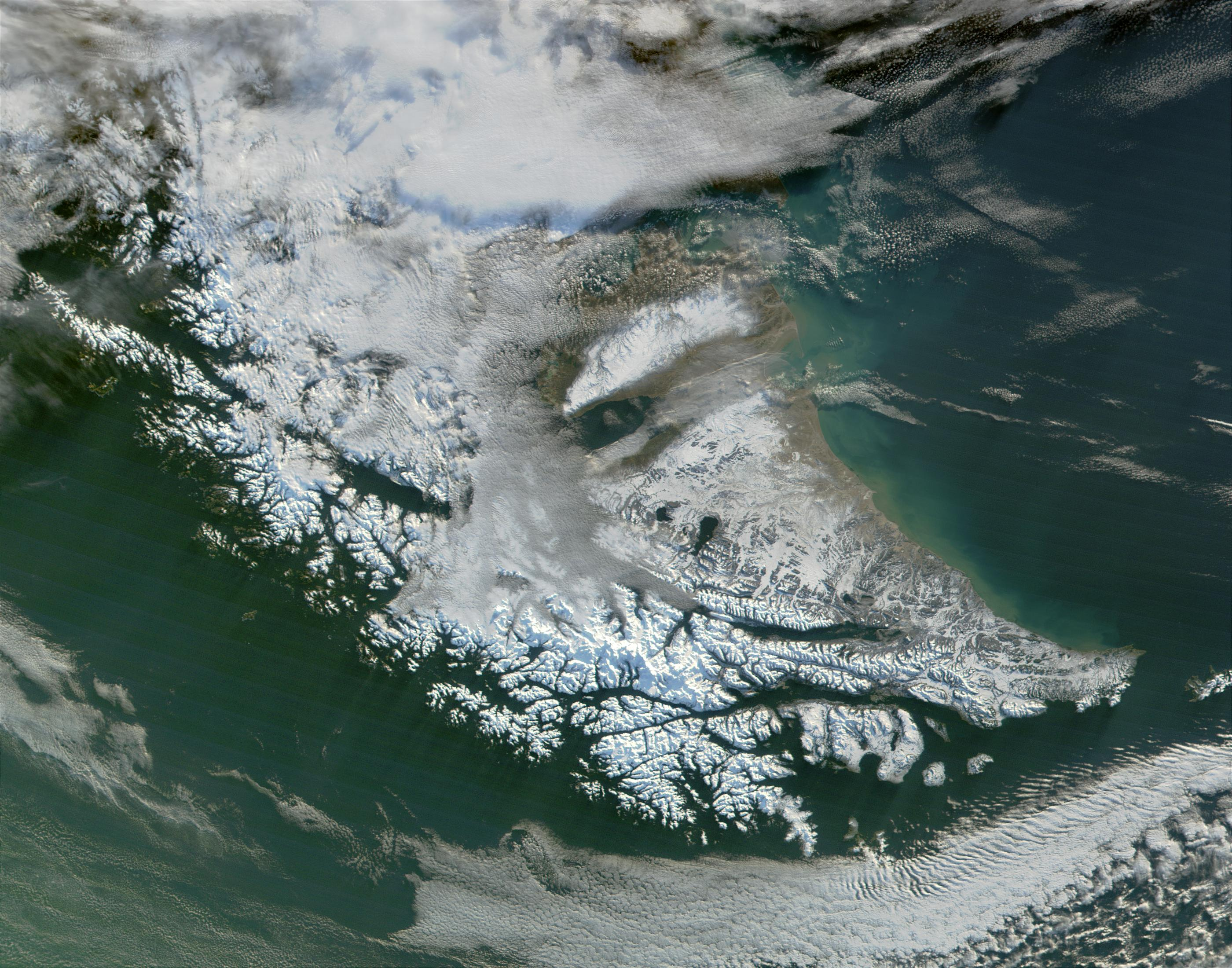 Satellite image of Tierra del Fuego. Very cloudy and snowy because this picture was taken during the southern hemisphere's autumn.